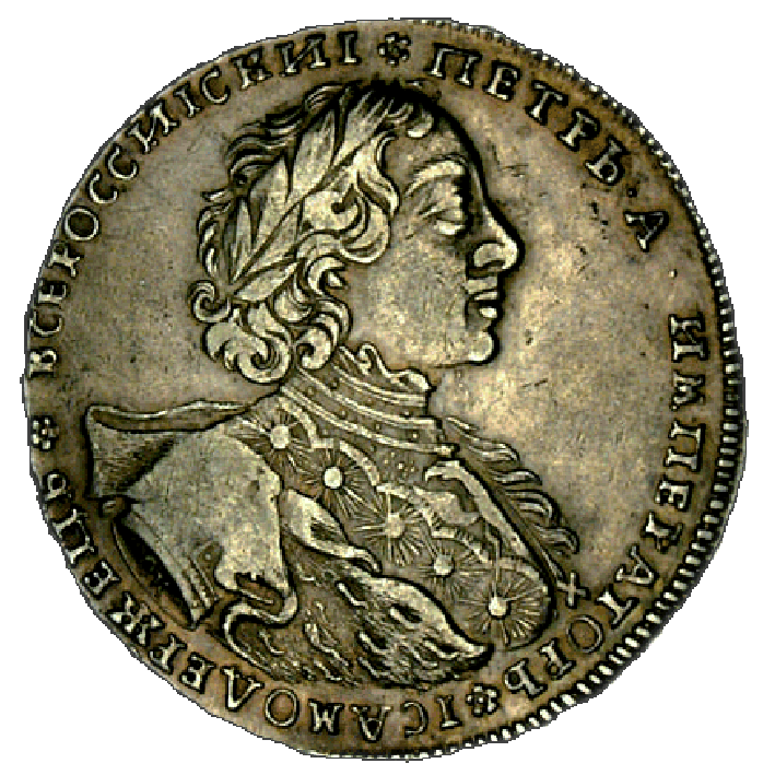 1 Russian silver ruble of 1723 (obverse)